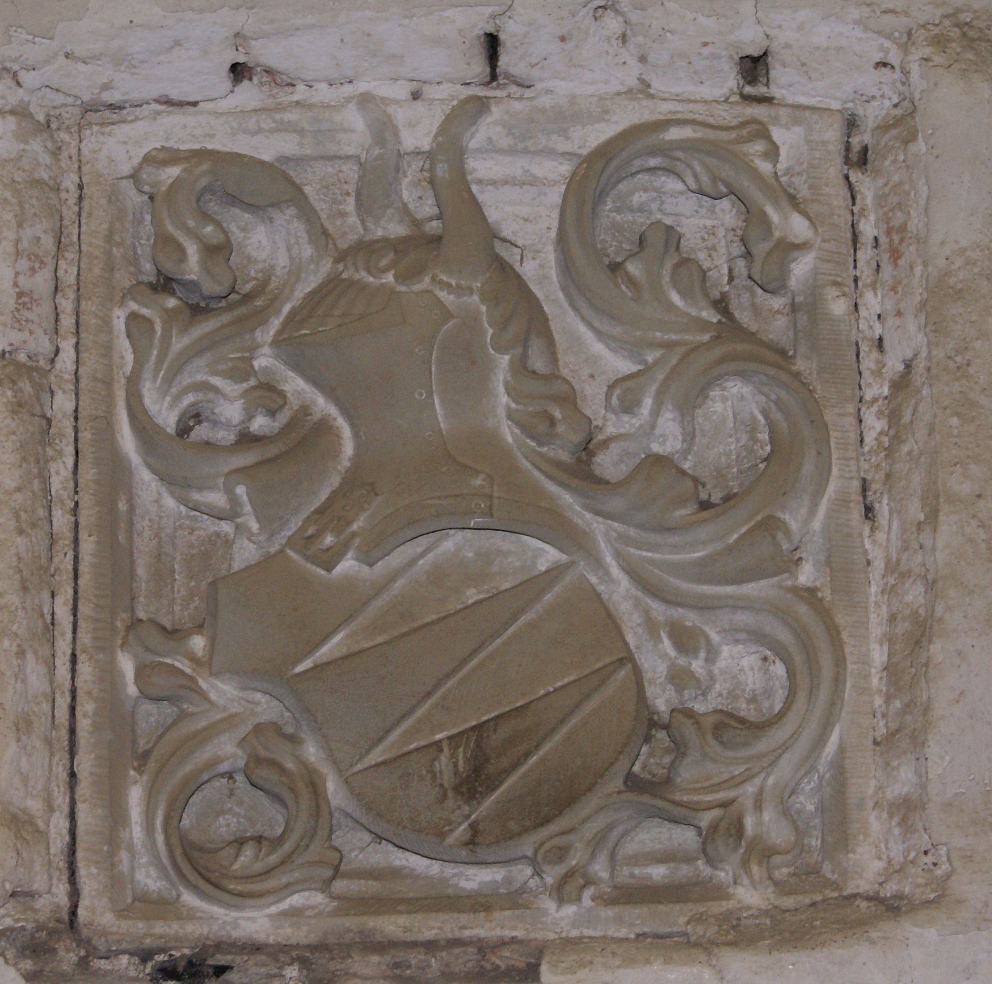 Glimmingehus, castle from the Middle Ages in Scania, coat of arms of Jens Holgersen Ulfstand